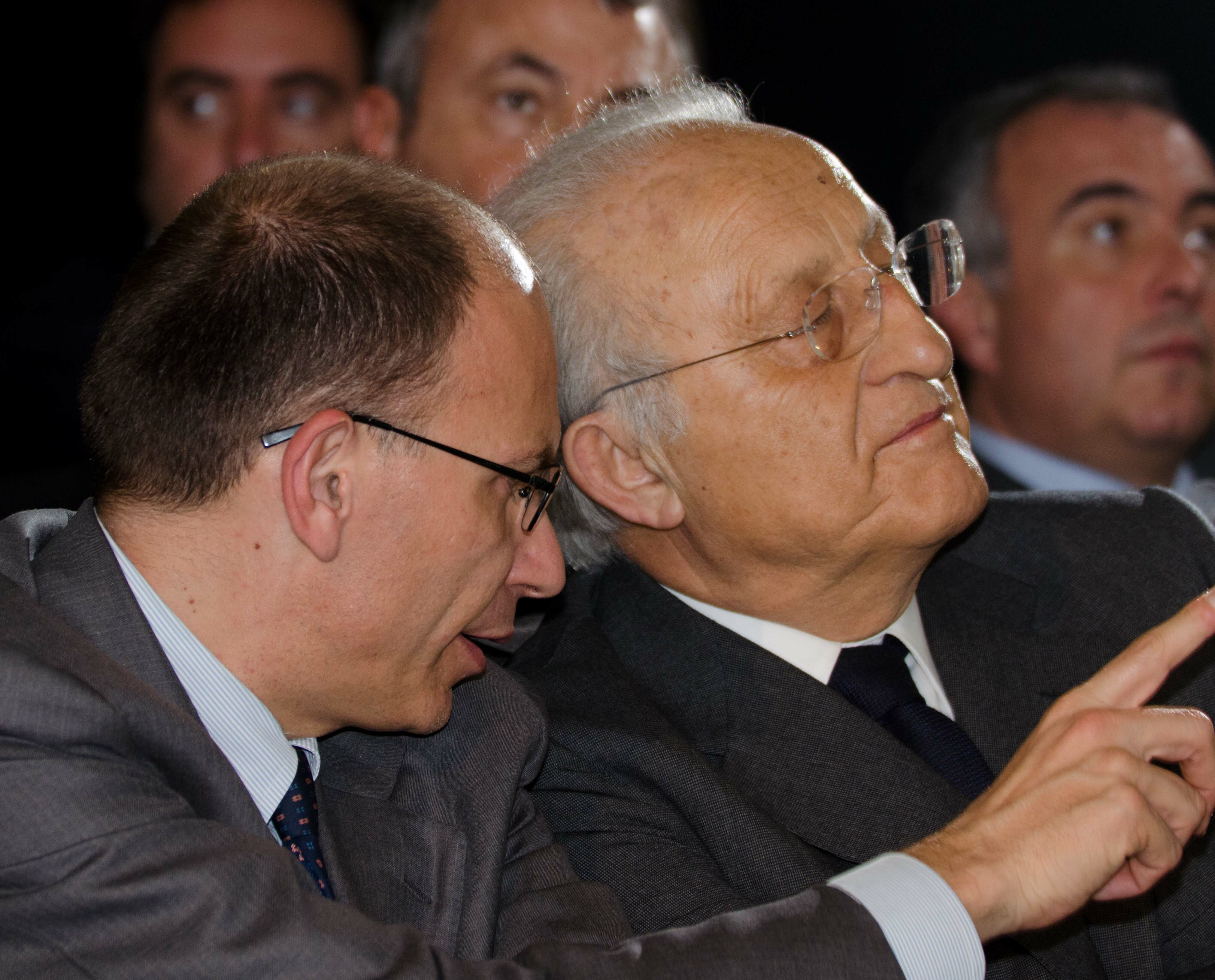 Enrico Letta e il Ministro per il turismo e lo sport Piero Gnudi